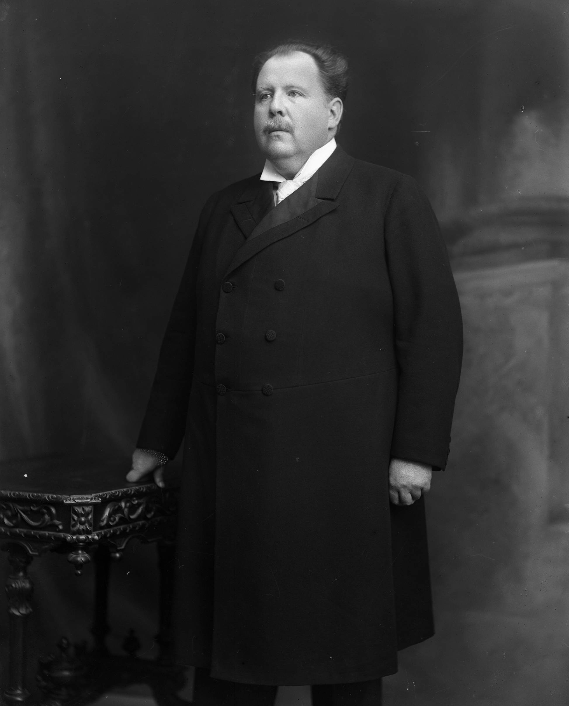 José Maria de Alpoim (1858-1916)